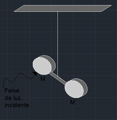 Nichols and Hull's experience